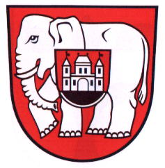 Coat of arms of Niederroßla